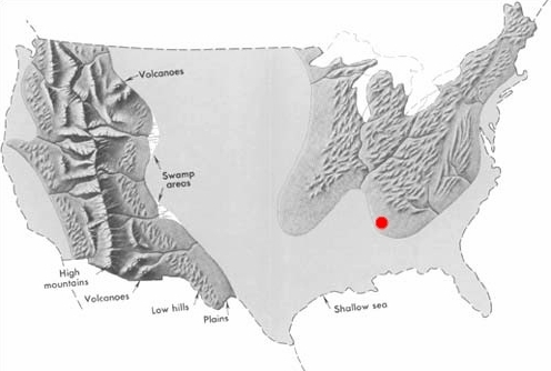 Using the file File:US cretaceous general.jpg from the English Wikipedia, I modified the image by adding a red dot at the approximate location of the Coon Creek Science Center, a fossil finding site near Adamsville, Tennessee, I also cropped the image slightly to get rid of the black outline around the image. File:US Cretaceous Coon Creek.jpg is the same file as this one but uncropped with the black outline still around.